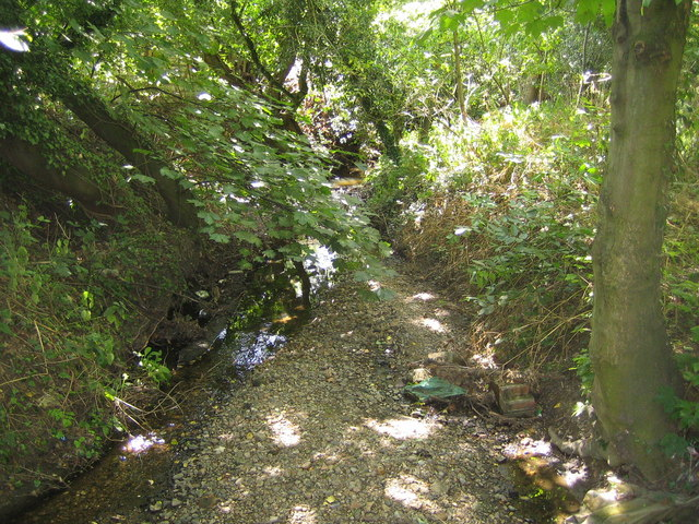 Rags Brook in Goff's Oak. Looking downstream from the Rags Lane bridge, Rags Brook is a minor tributary of the River Lee, and flows through Flamstead End and around the north side of Cheshunt.